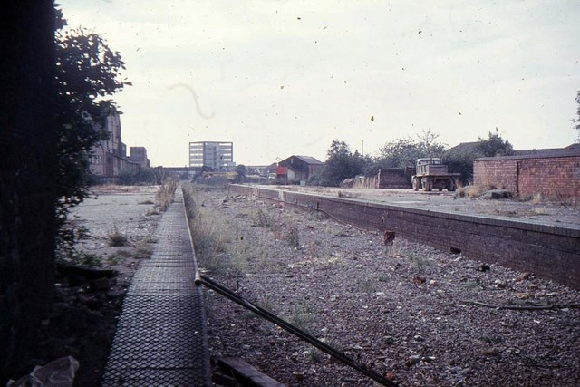 Fishponds railway station Original description: Fishponds (Bristol) Station (Disused)